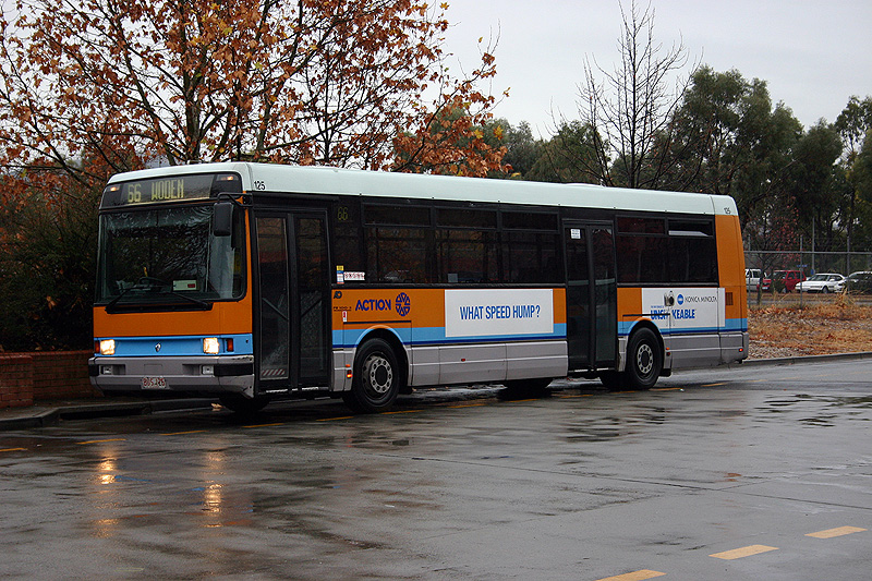 Austral Denning (AD) bodied Renault PR100.3 used by ACTION at Tuggeranong Interchange Todd Milton.